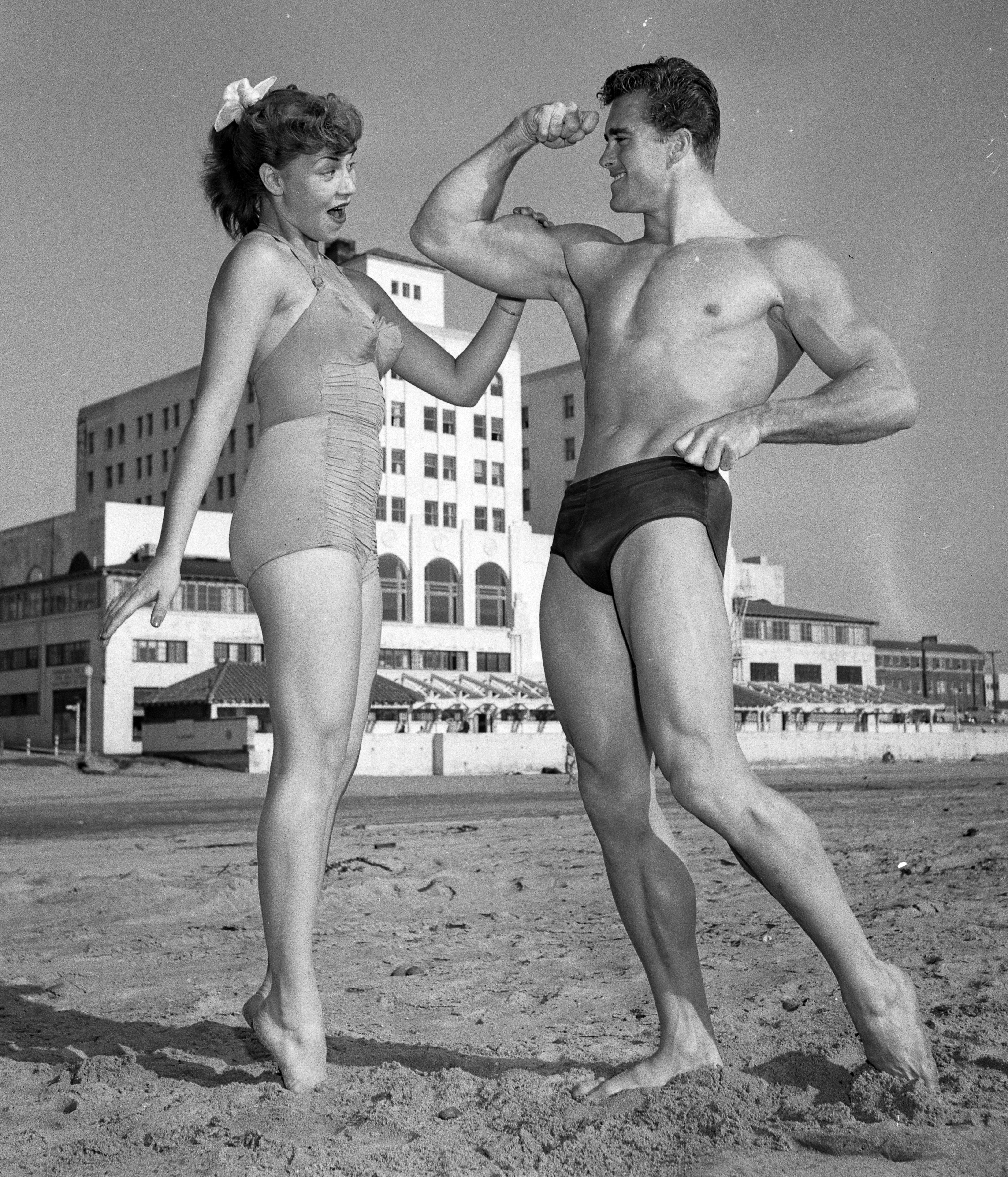 Ed Holovchik [aka Ed Fury], bodybuilder and Mr. Los Angeles contestant with model Jackie Coey (cropped)